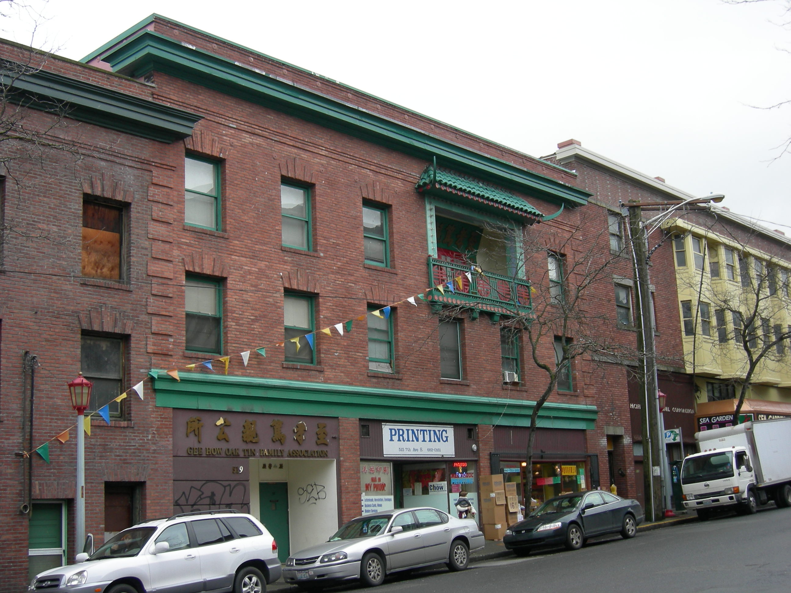 Gee How Oak Tin Family Association building, 7th Ave. S., just south of King Street, International District, Seattle, Washington.